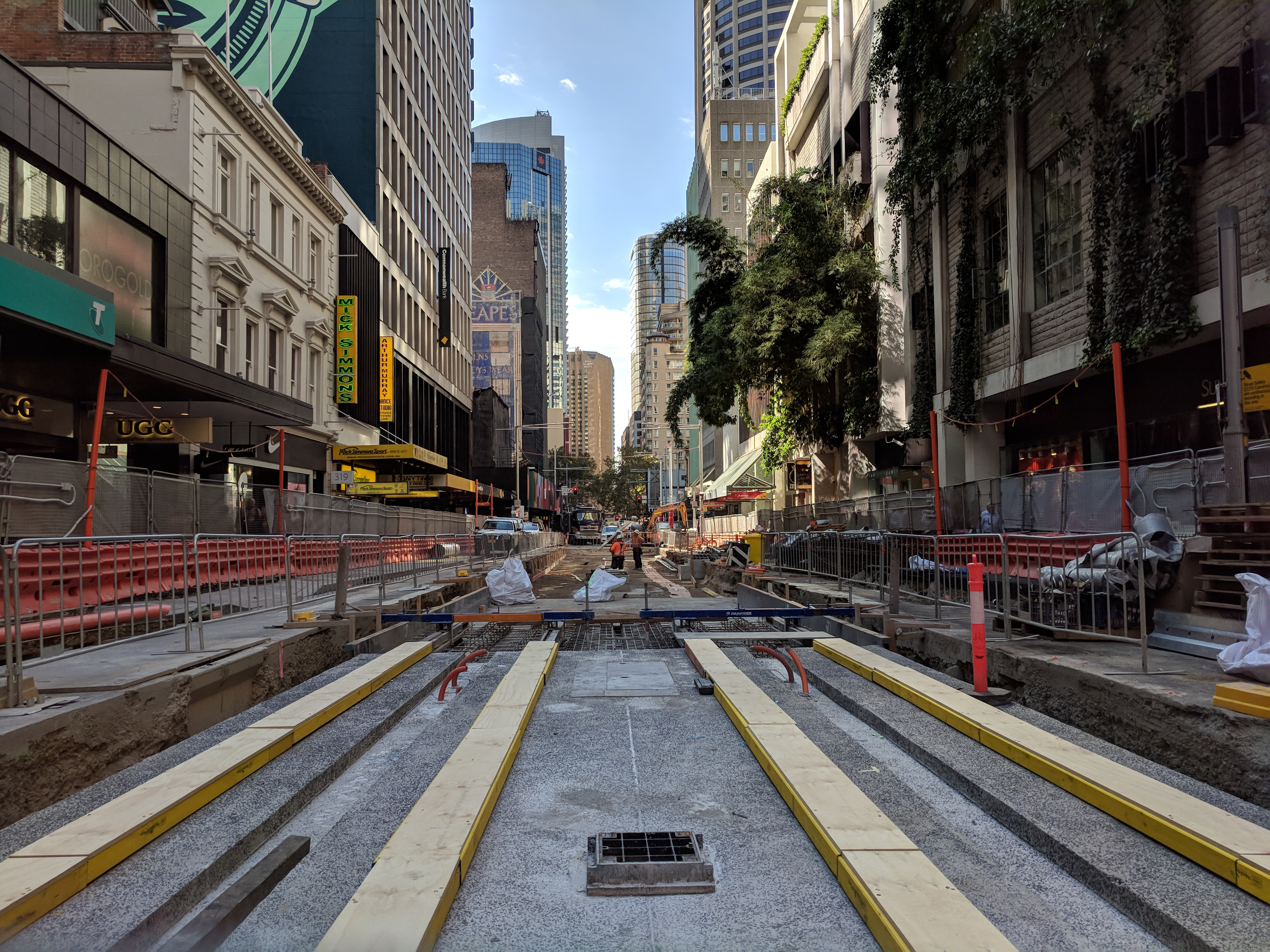 Wynyard light rail stop under construction